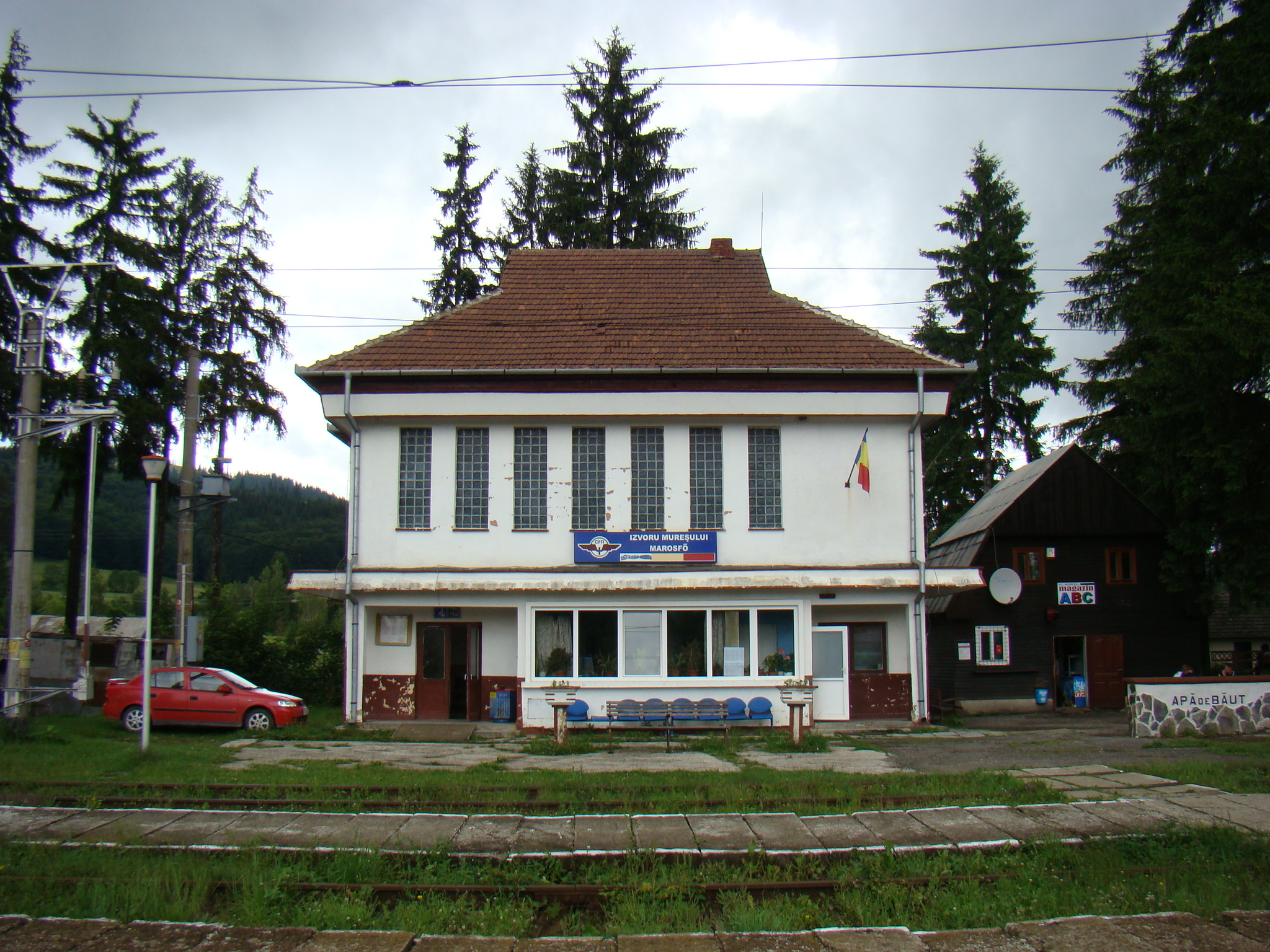 The railway station from Izvorul Muresului, Ro